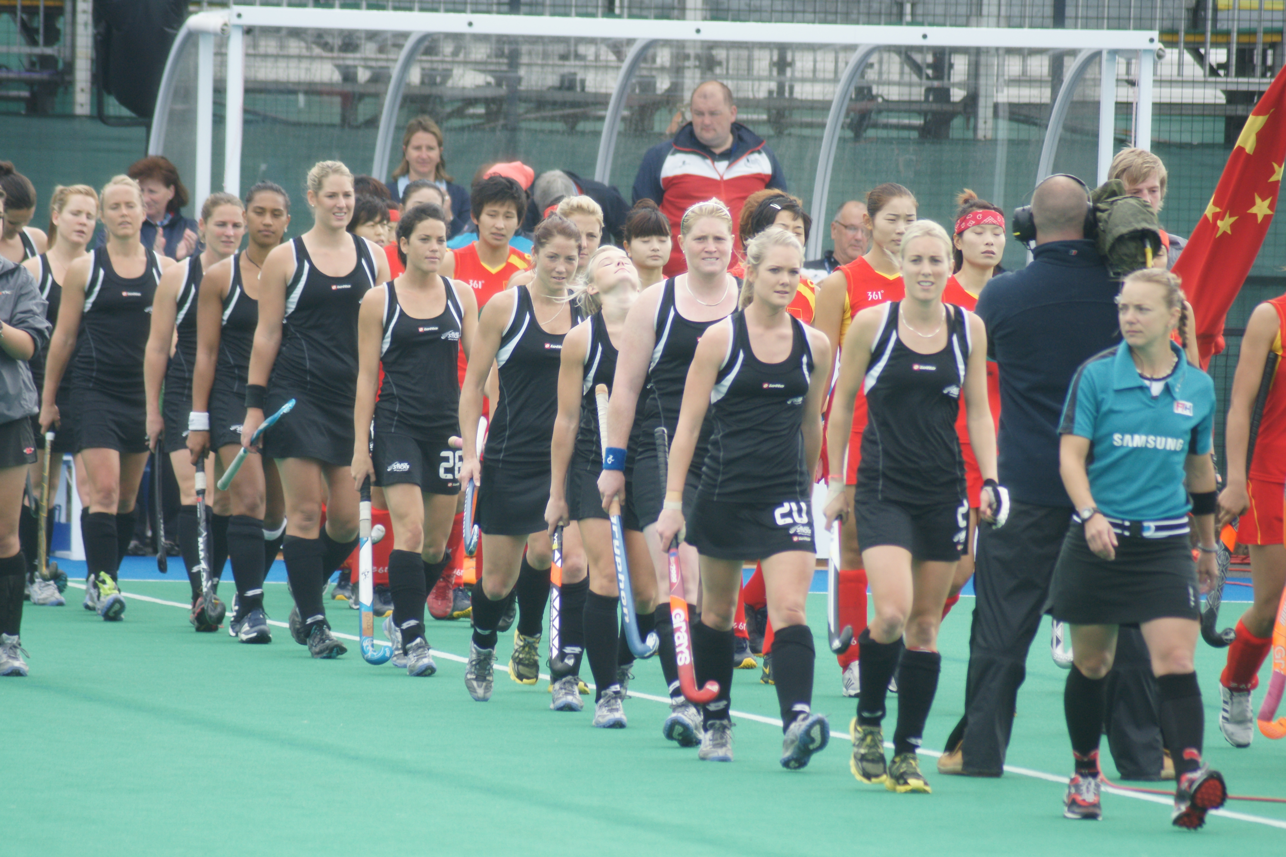 New Zealand